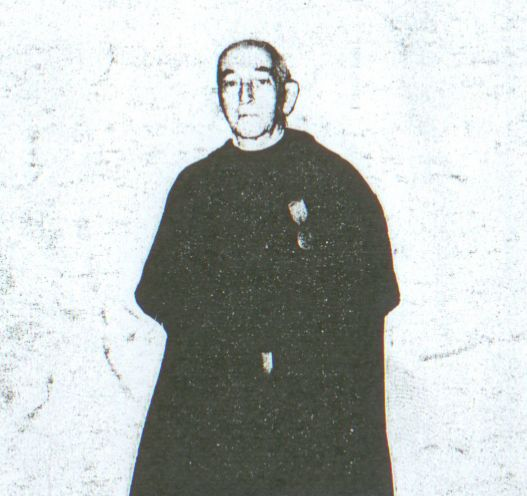 Father Lucas Espinosa after receiving the first Centenary of the political establishment of the Department of Loreto, Commemorative Medal in a ceremony held at Neguri (Vizcaya) in 1975.